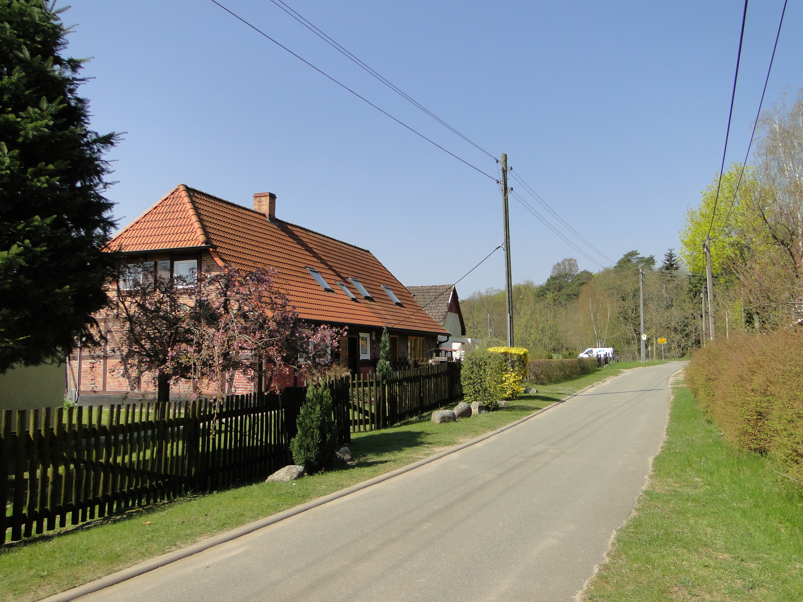 Street in Kläden, district Parchim, Mecklenburg-Vorpommern, Germany